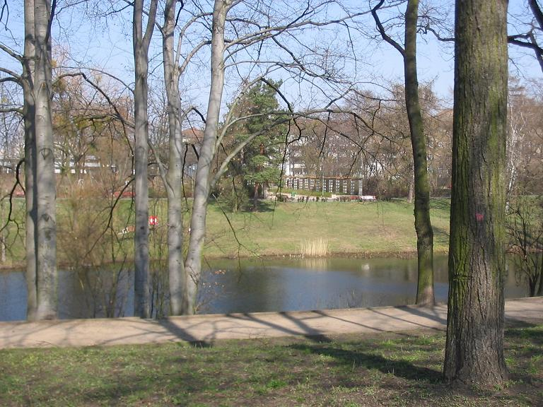 Alboinplatz in Berlin-Schöneberg, Germany. Naturdenkmal Toteisloch „Blanke Helle“.